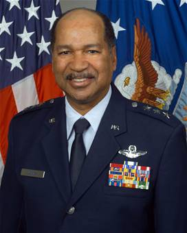 Lt. Gen. Daniel James III